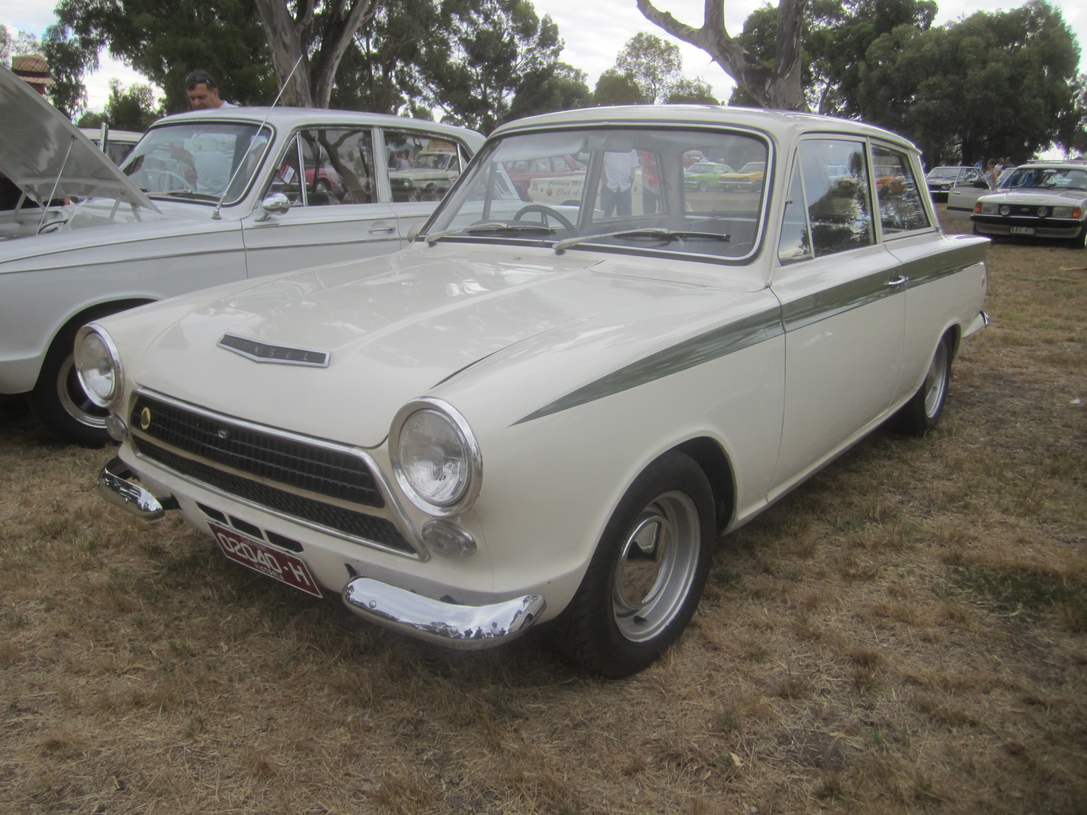 The Mk I Lotus Cortina was only built in England from 1963-66 This is the early Mk I with eliptical indicators separate to the grille. (the 1964 update, the grille incorporated squarer parkers and got new flow through ventilation, vents in rear pillars) Engine; Lotus 115E 105bhp 1588cc alloy twin overhead cam Kent. Close ratio gearbox Only available in 2 door and only white with green flash, quarter bumpers on the front, unique seats and dash, Lotus badging. The early cars also had lightweight alloy door, boot and bonnet panels, battery in the boot, drastically altered suspension; shorter struts at the front and coils and struts at the rear, in 1964 panels were back to standard Cortina and in 1965 suspension was back to standard GT leaves